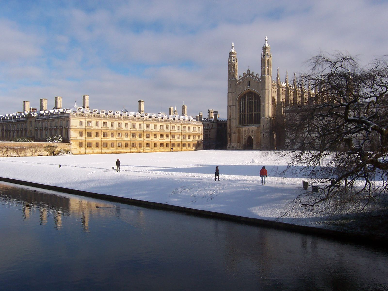 Cambridge In The Snow 2004100_7843